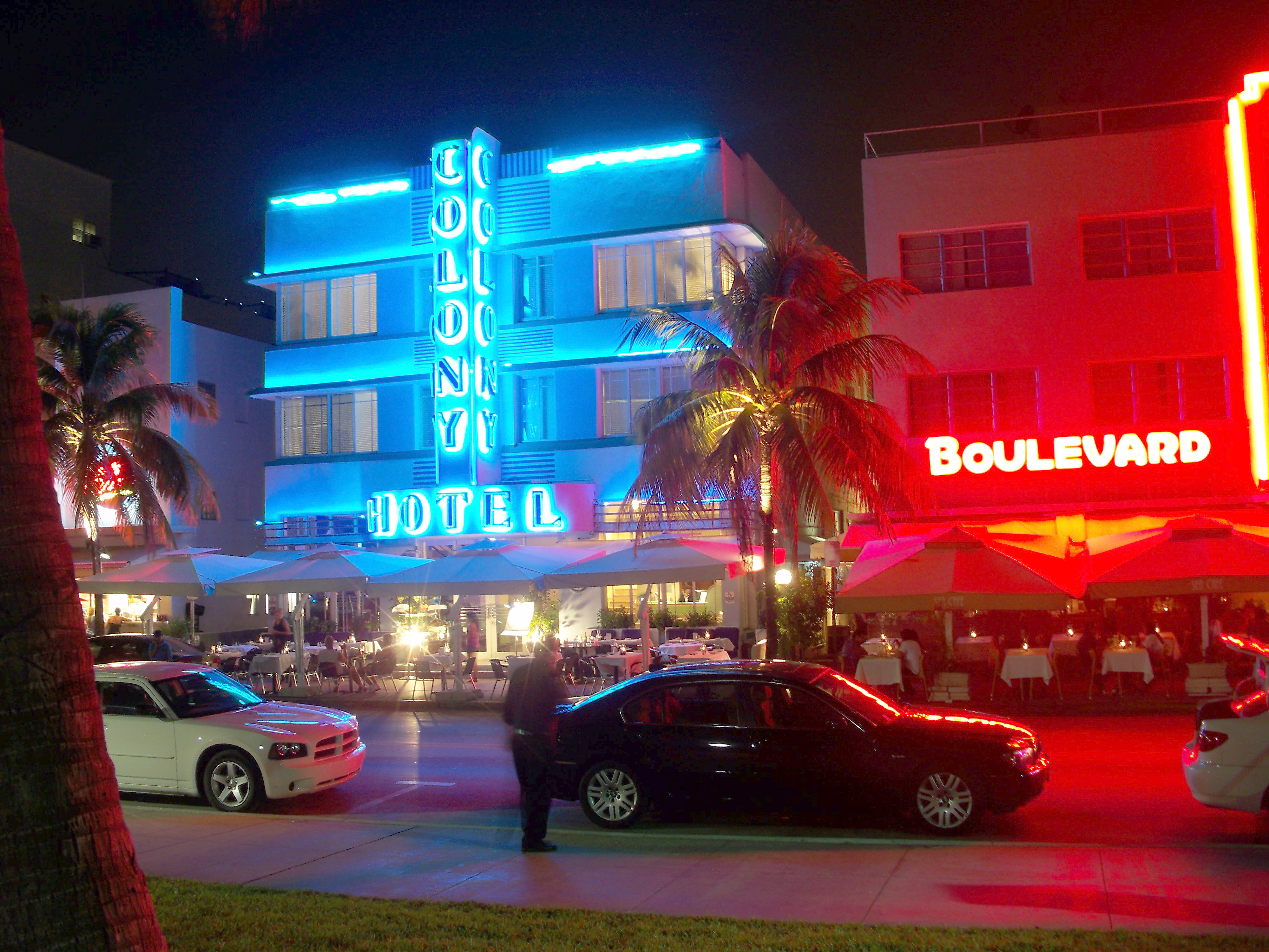 Neon sign on Colony Hotel — South Beach Ocean Drive - in Miami Beach.